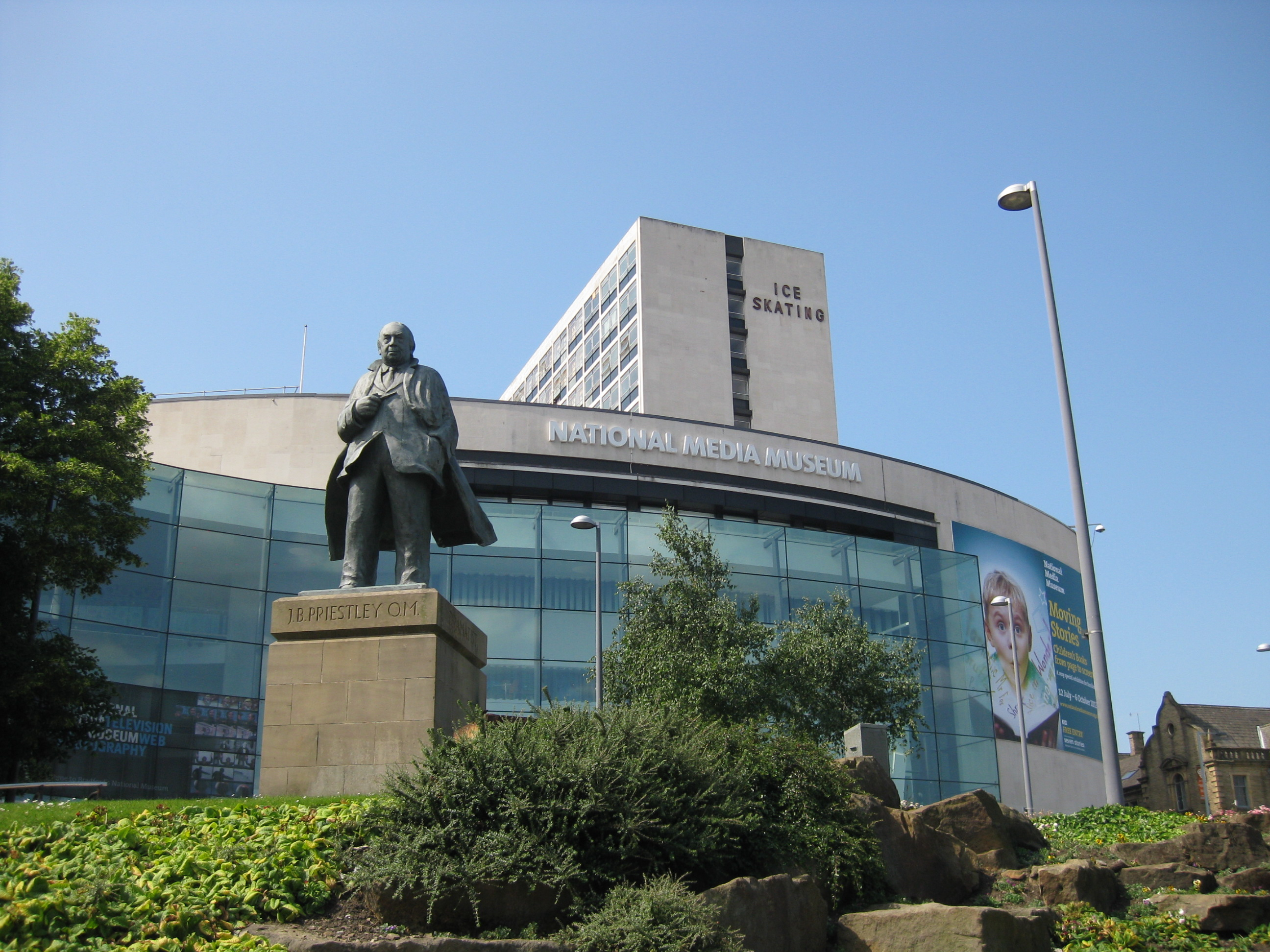 National Media Museum, Bradford, with a statue of J. B. Priestley in front. The ice rink is behind